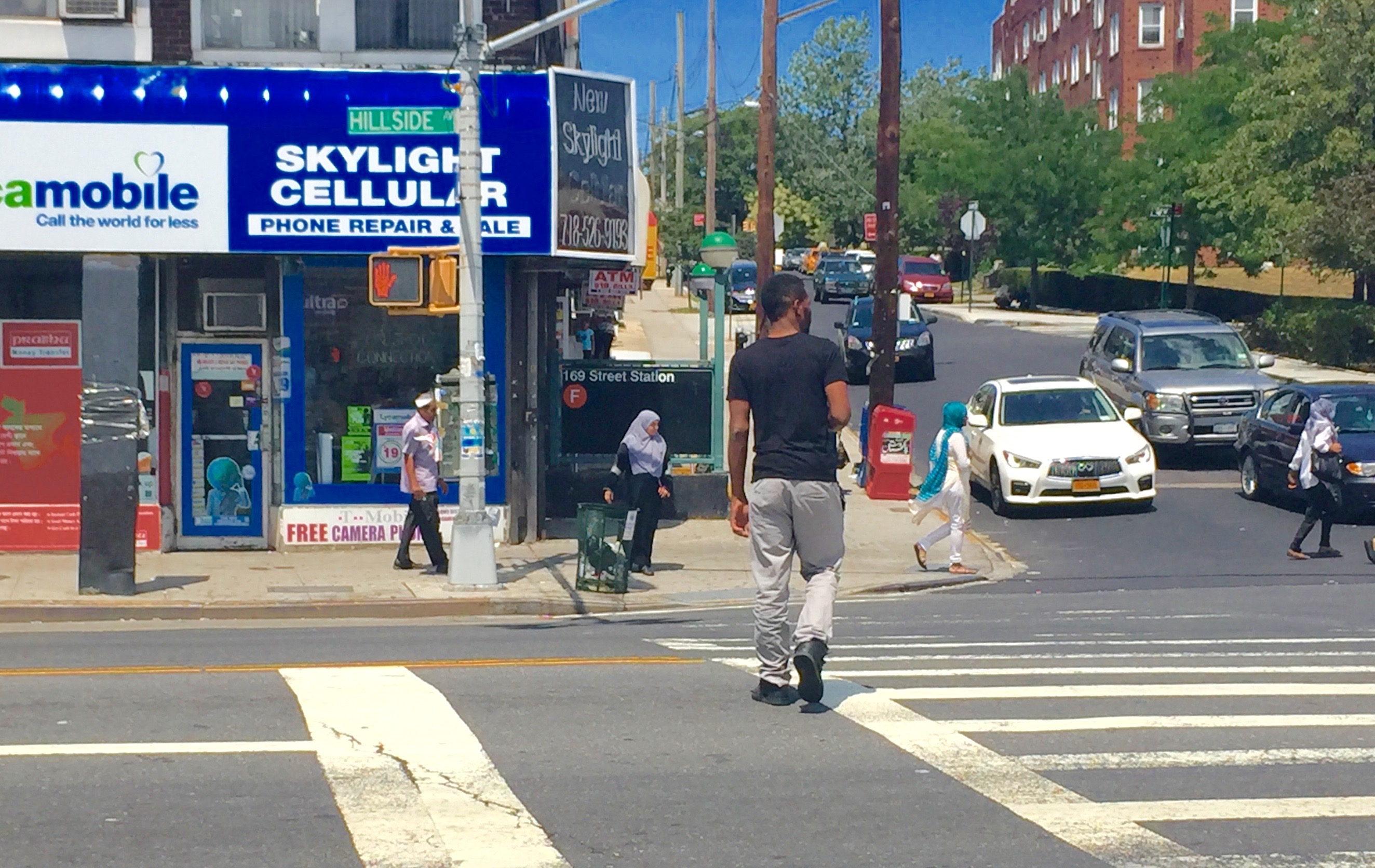 NW corner stairs at 169th Street on the F.